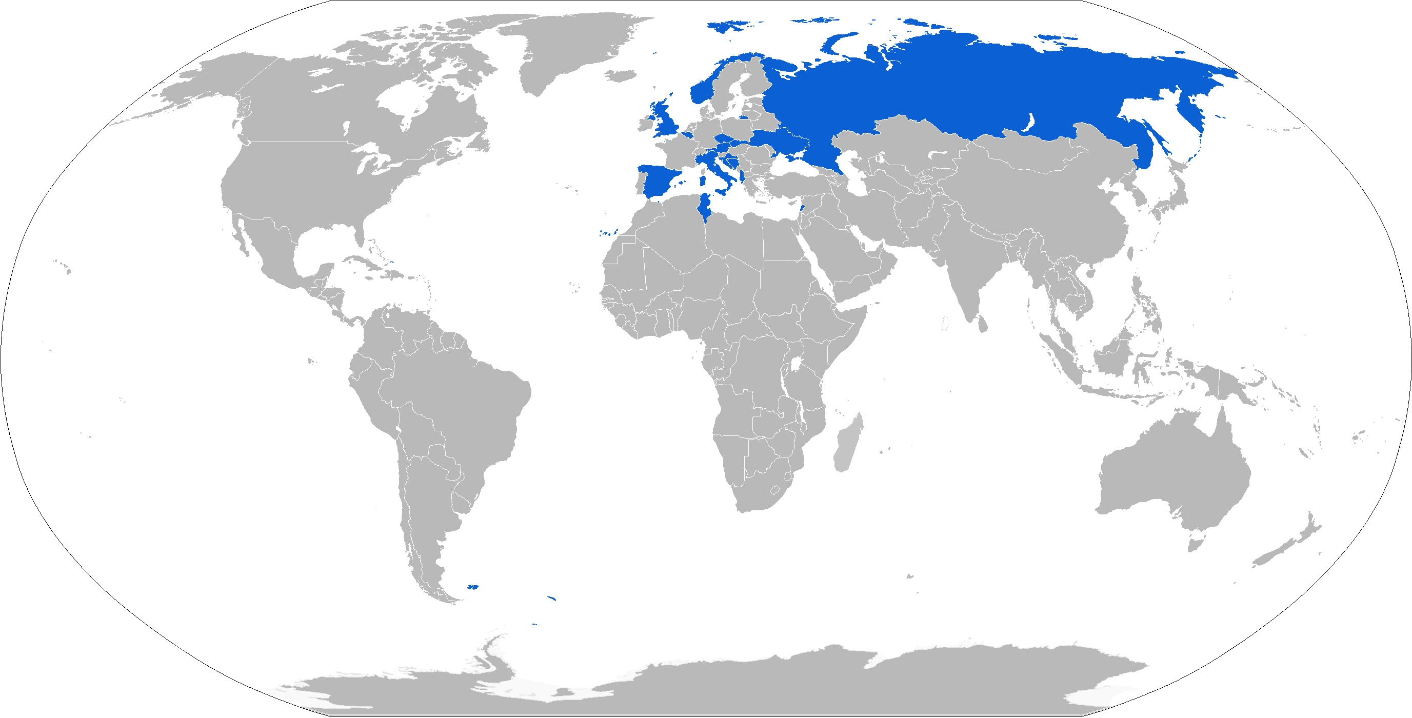 Map of Iveco LMV operators in blue